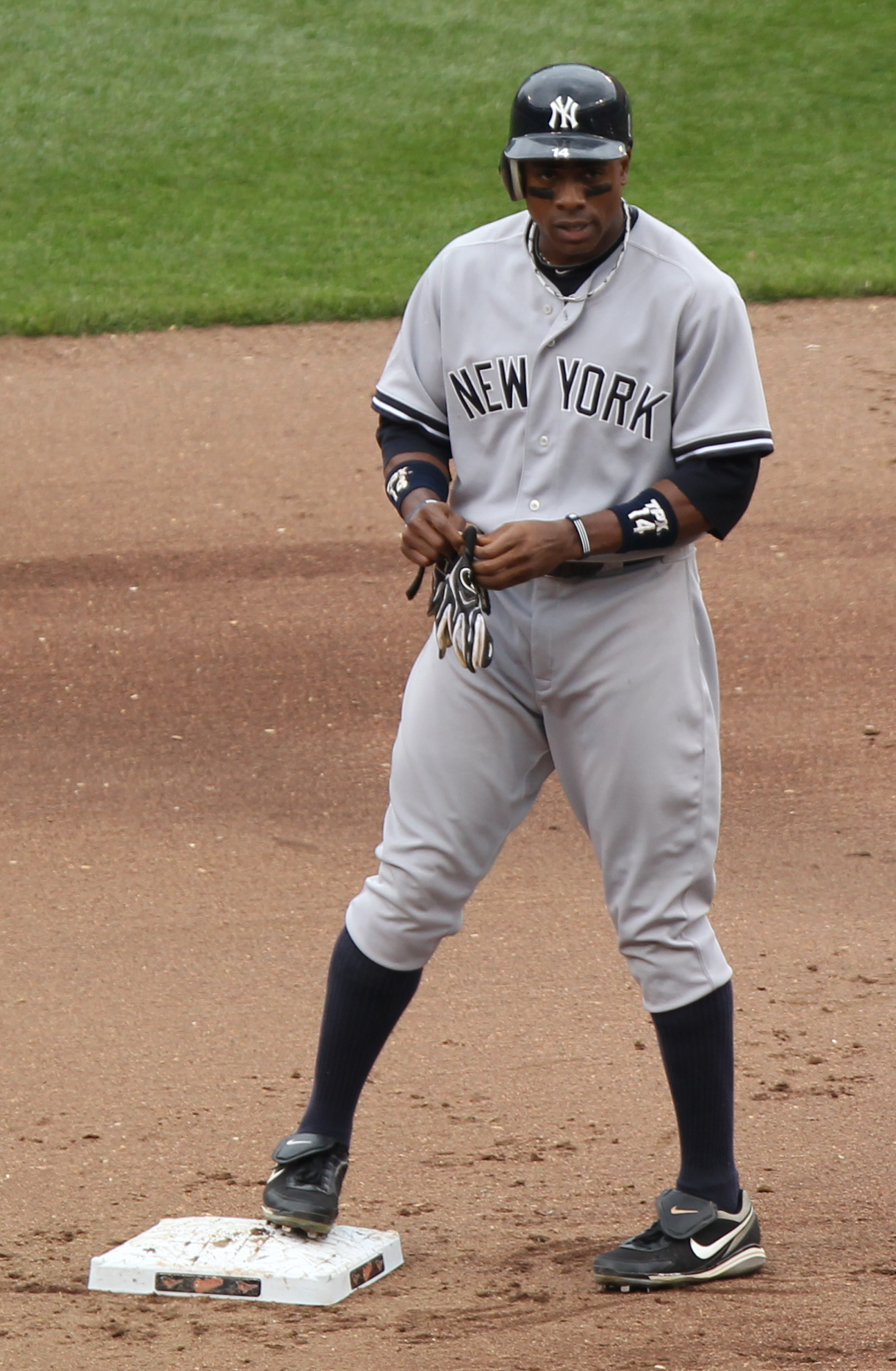 Curtis Granderson stands on second base during a game between the New York Yankees and Baltimore Orioles on April 24, 2011.